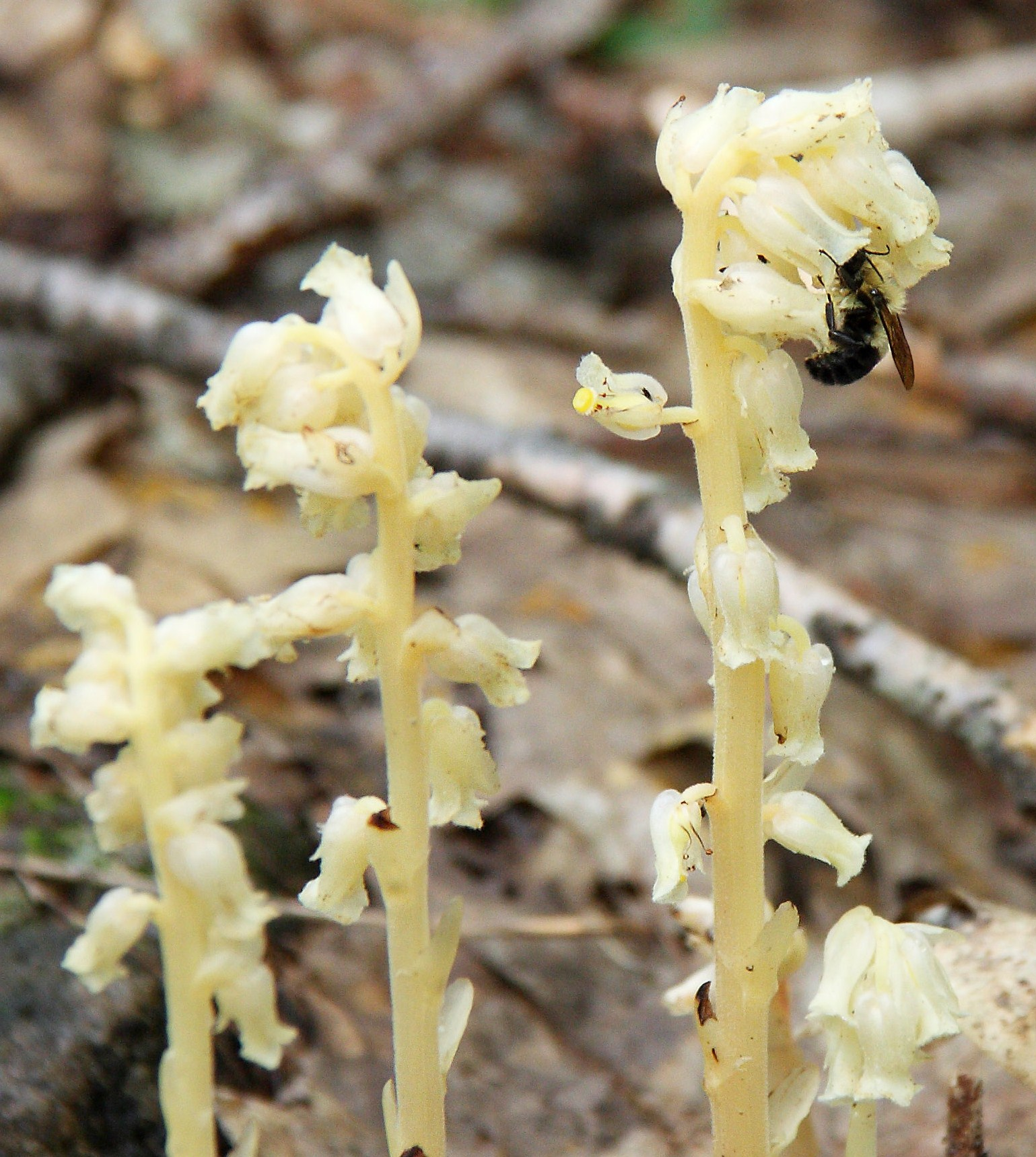 Photo of Dutchman's Pipes with a bee. Photo was taken in the Exeter Town Forest in Exeter, NH.